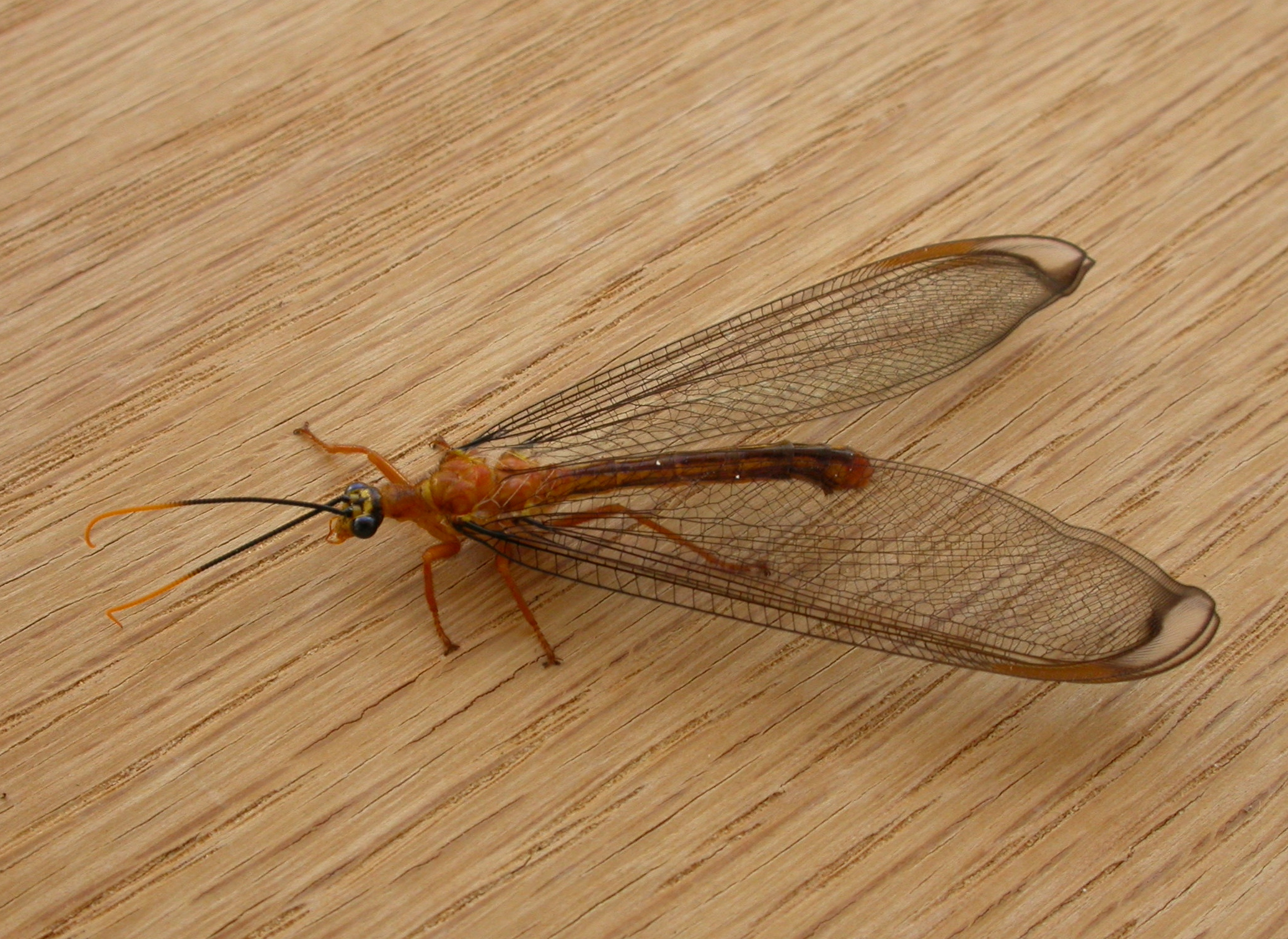 Nymphes myrmeleonides Leach, to MV light, Aranda, ACT, 31 December 2008/ 1 January 2009